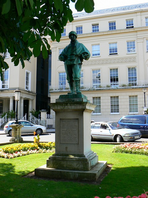 Dr Edward Adrian Wilson, The Promenade, Cheltenham. Dr Wilson died in March 1912 on the ill-fated Antarctic exploration of 1910 to 1913 led by Captain Scott. This memorial to the son of Cheltenham was unveiled on 9 July 1914 by Arctic explorer Sir Clements Markham. The dedication can be read here 1092092